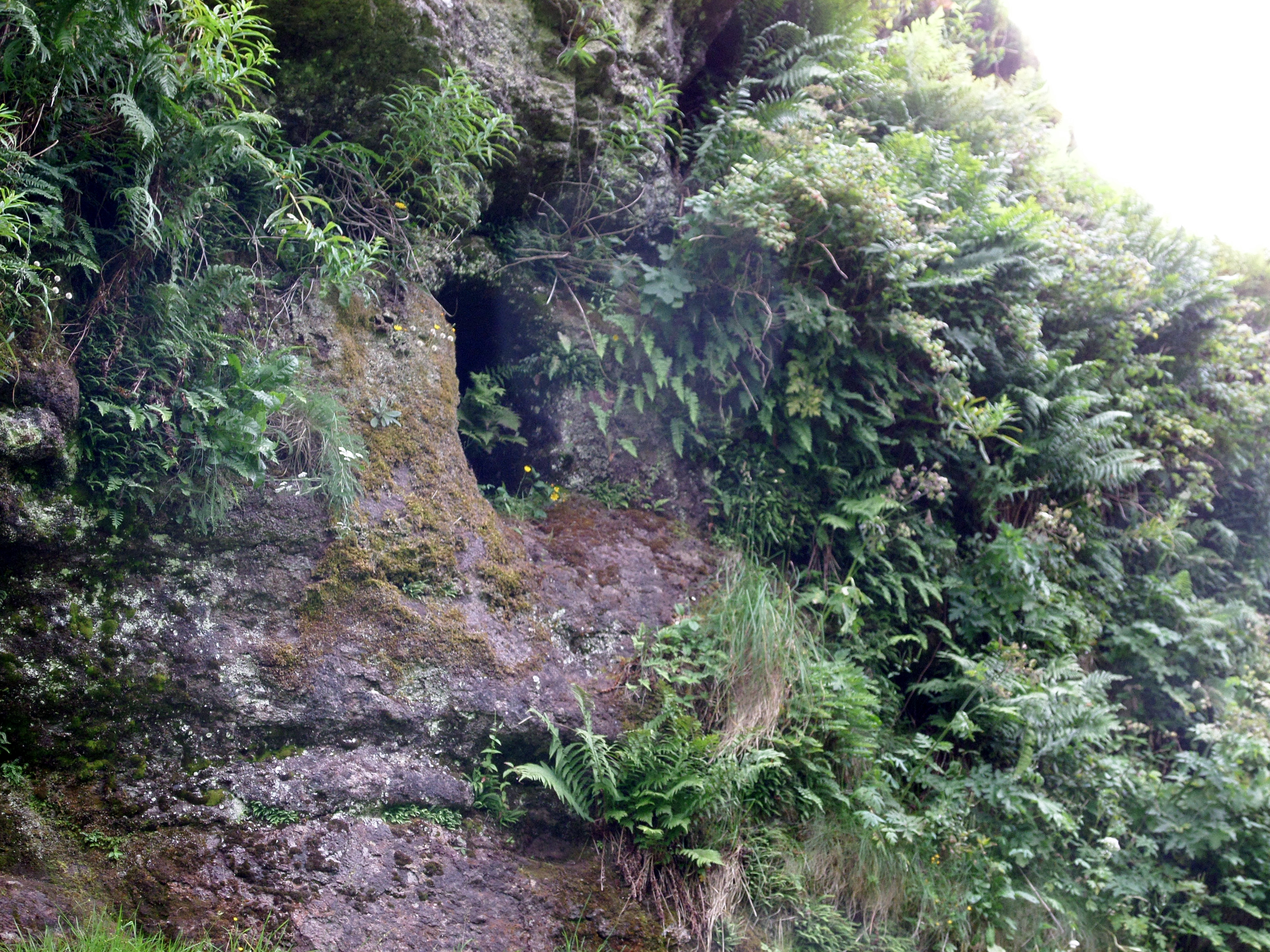 Dunton Cove, 17th Century Scottish Covenanters artificial cave side view, Craufurdland Water, Ayrshire. Large enough for two people to hide only.